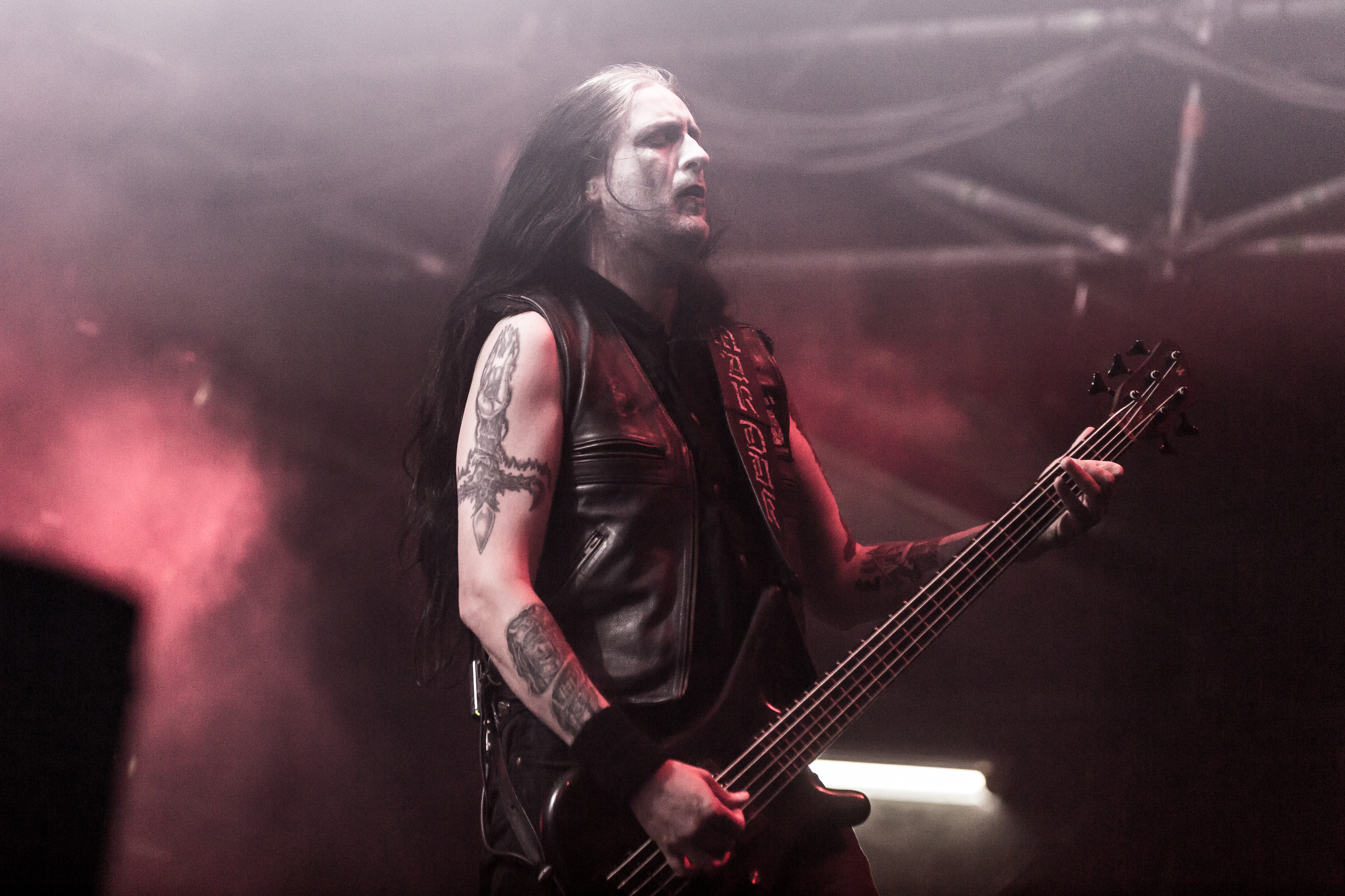 The Swedish Black metal band Marduk at the Party.San Metal Open Air 2017 in Obermehler-Schlotheim/Germany.